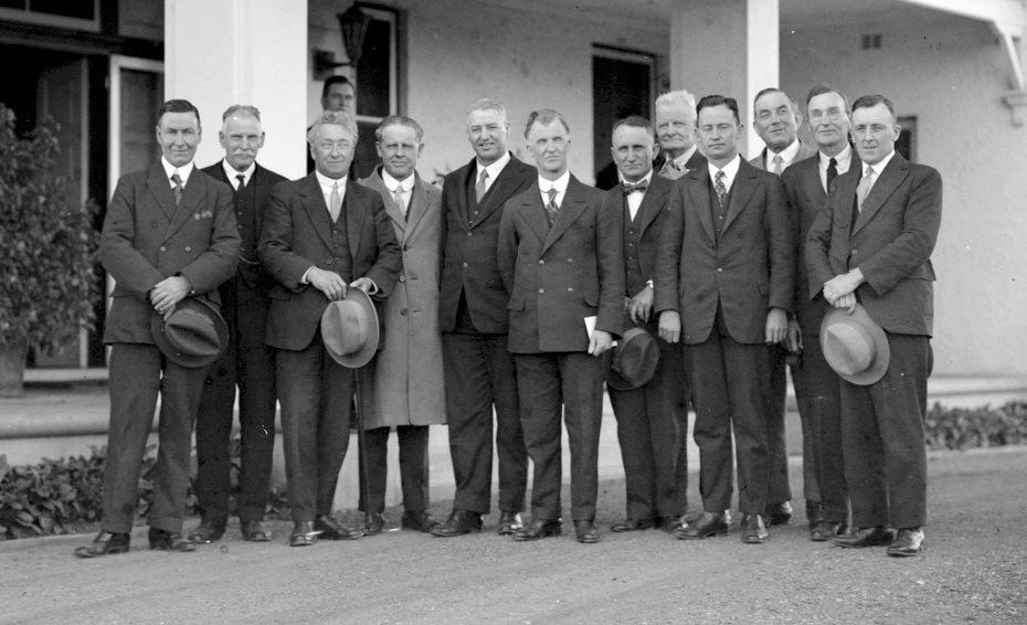 The Scullin Ministry sworn in at Government House, 22 October 1929